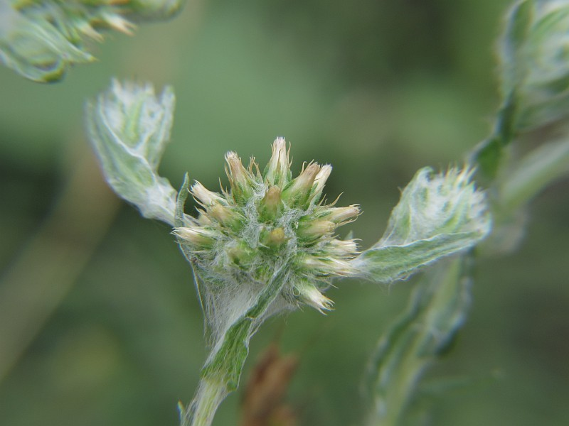 Filago vulgaris (Asteraceae) (Common Cutweed) - (flowering), Ede - Edese Heide, the Netherlands